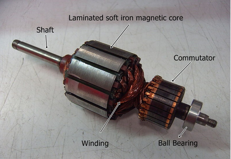 Motor's Rotor